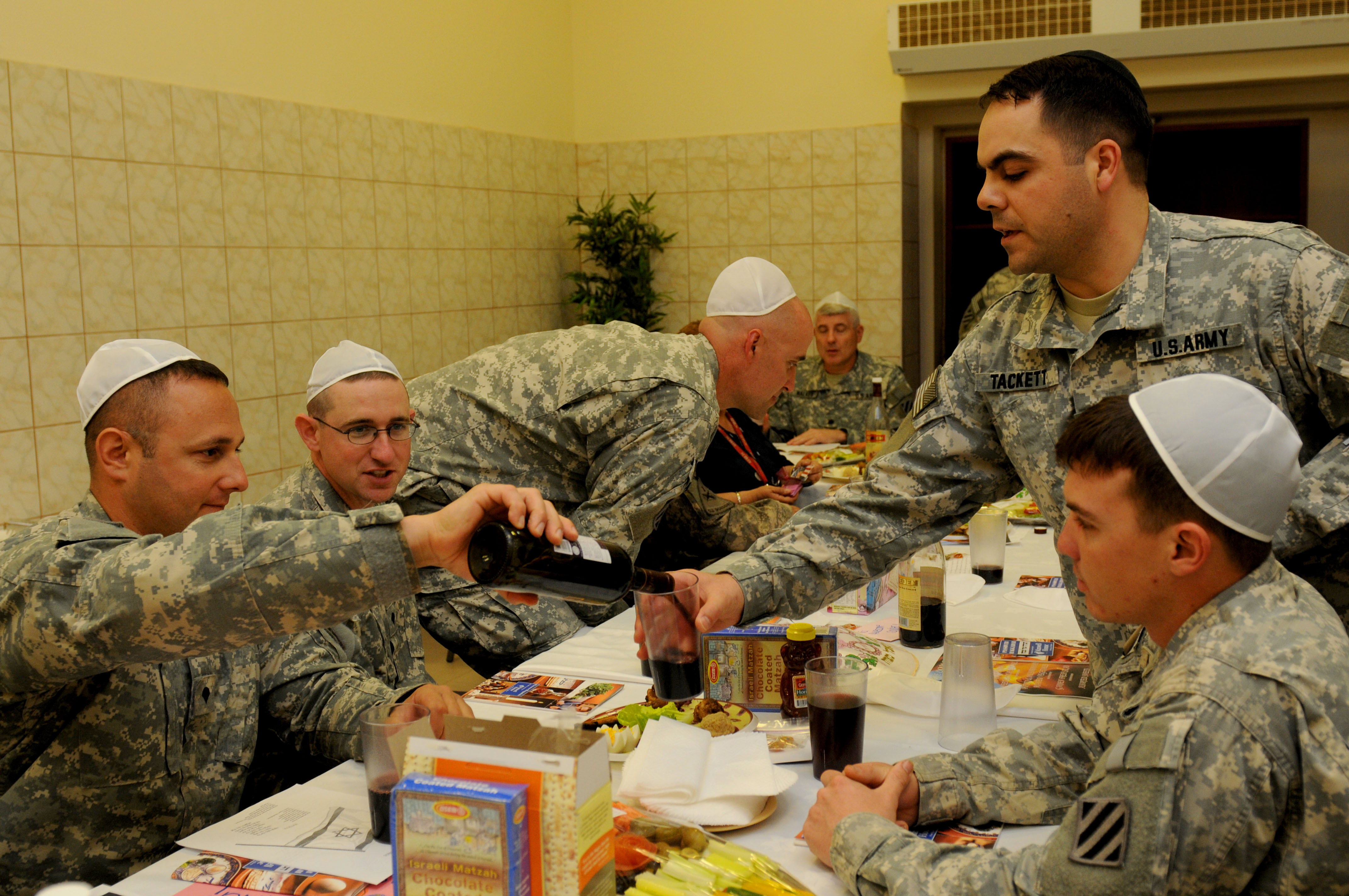 Spc. Brian Lankin fills Capt. Richard Tackett's glass with wine during a Jewish Passover ceremony, March 29, on Contingency Operating Base Speicher, Iraq.